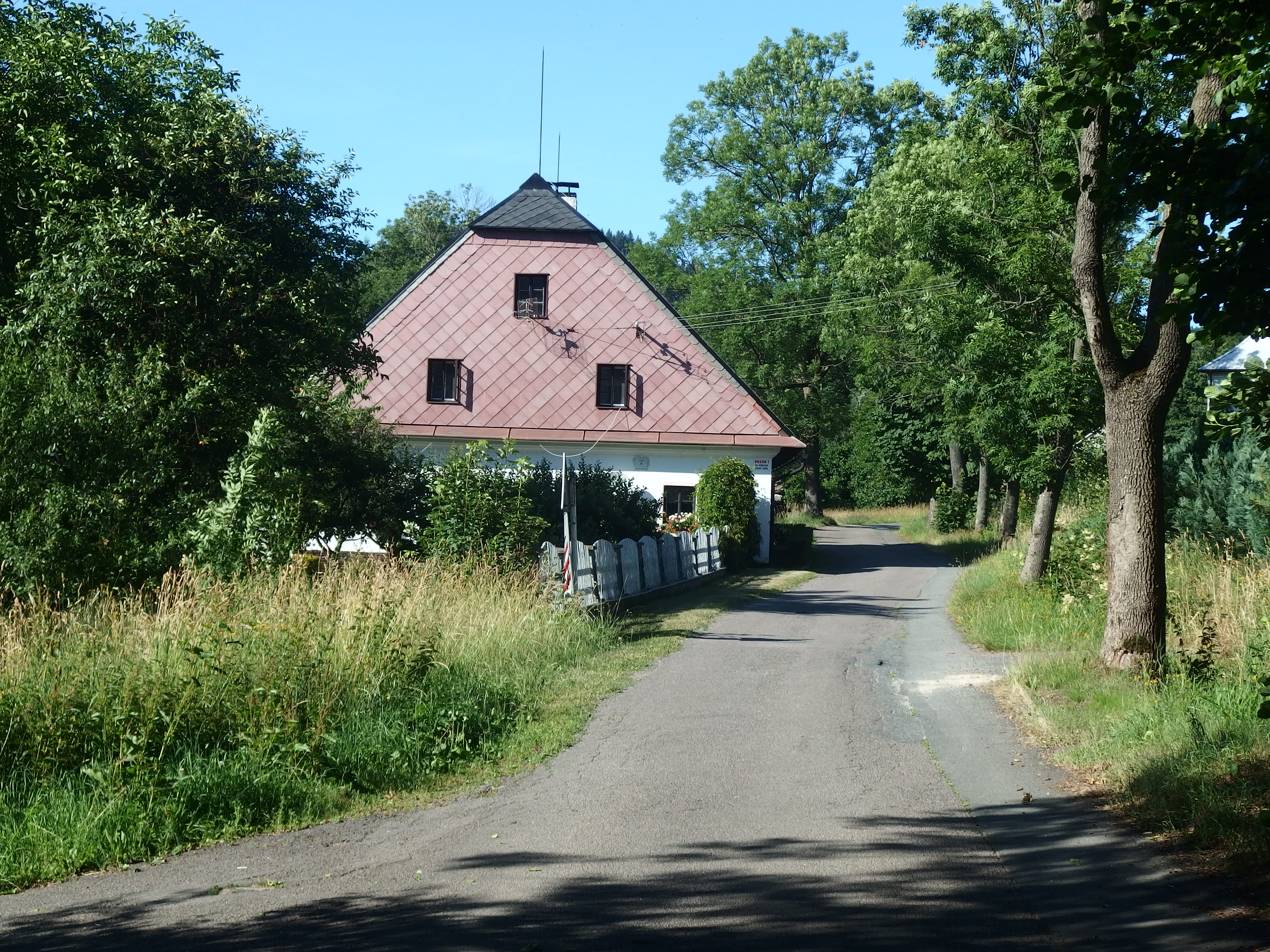 Červená Voda, Ústí nad Orlicí District, Czechia, part Bílá Voda.